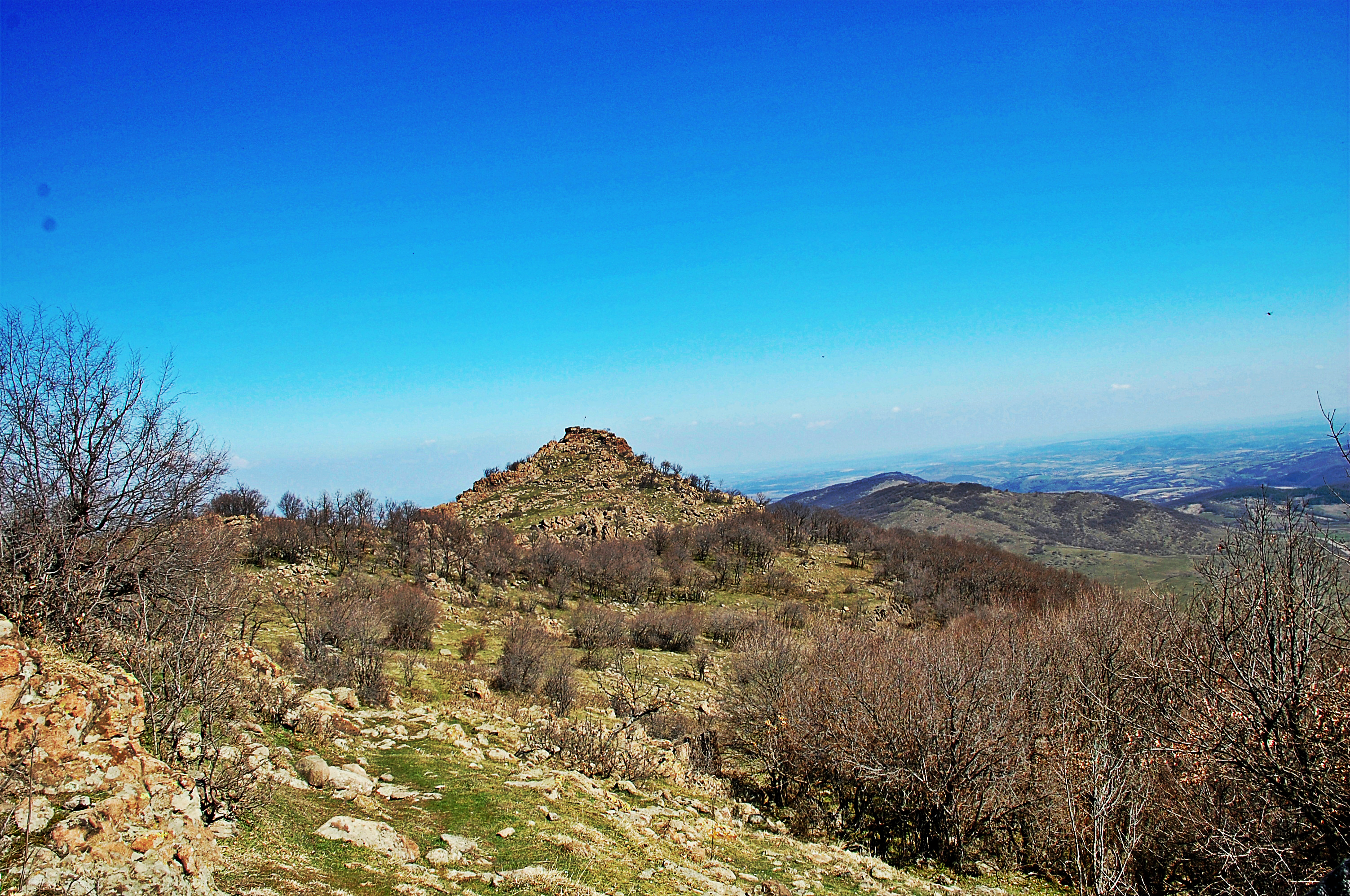 Dragoyna BG